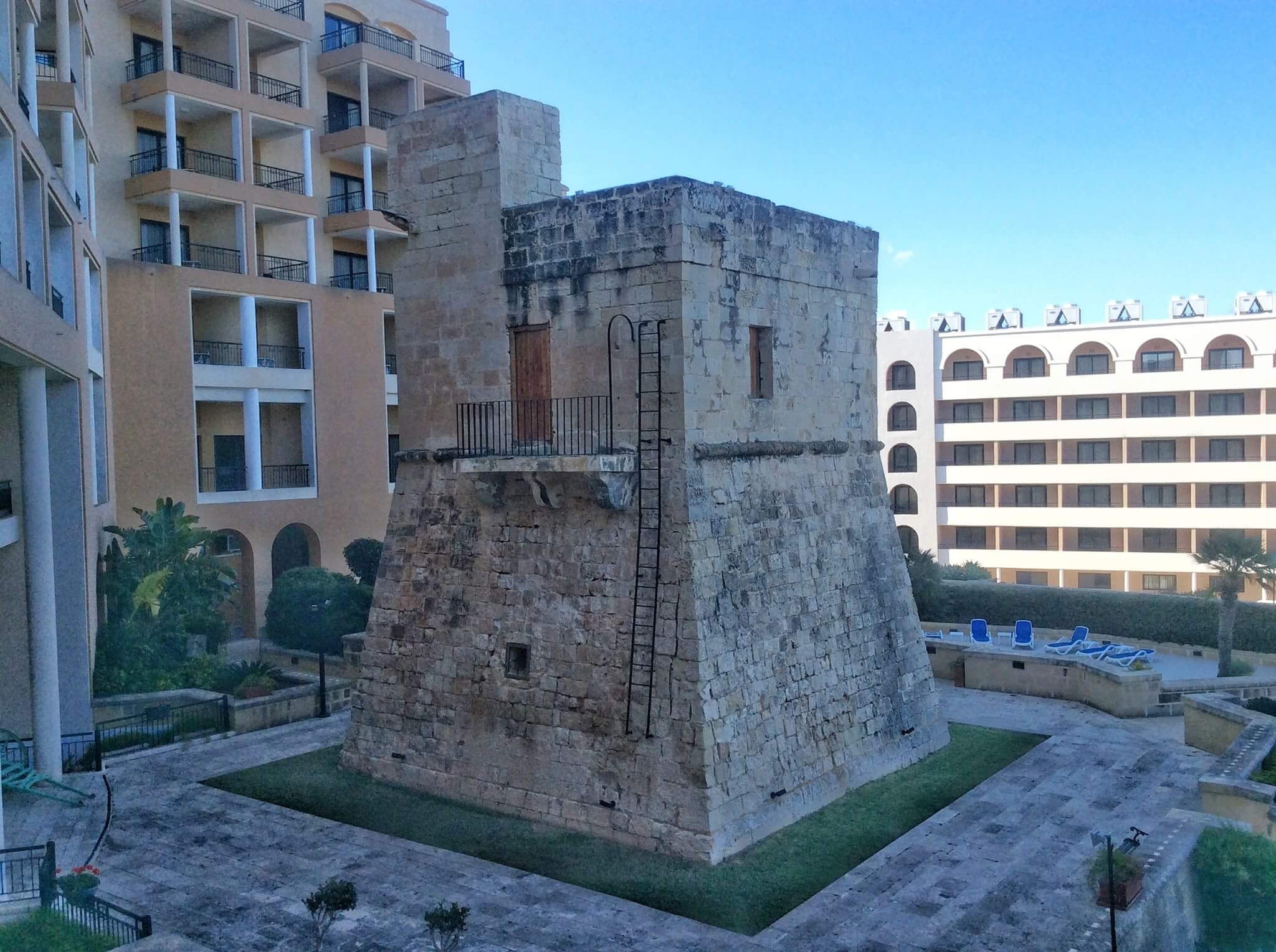 St George's Bay Tower This media is about Maltese cultural property with inventory number 01382.